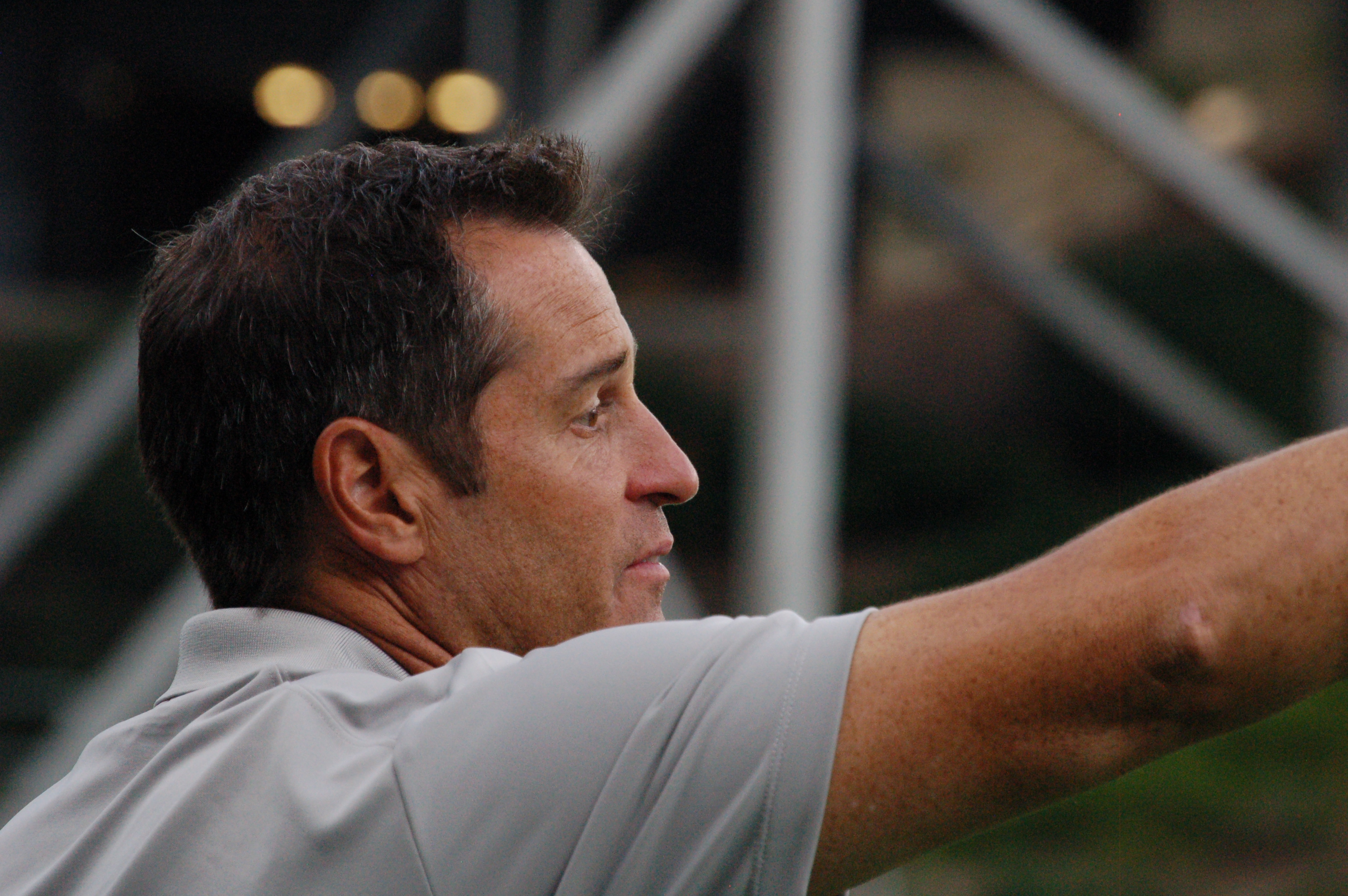 John Harkes (CIN) Taken during a match between FC Cincinnati and New York Red Bulls II at Nippert Stadium in Cincinnati, USA on July 20, 2016.